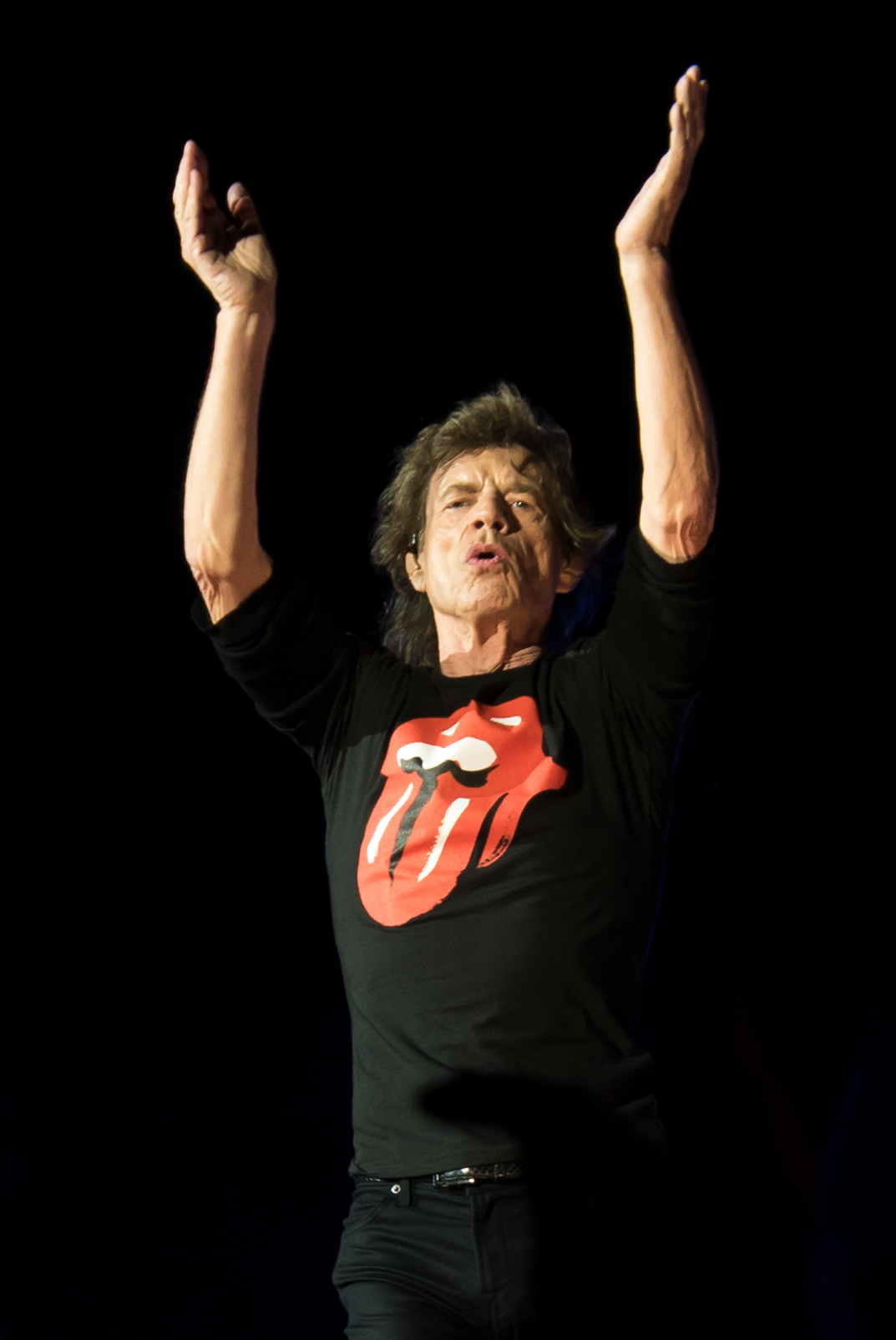 Mick Jagger onstage during a concert in Warsaw in 2018